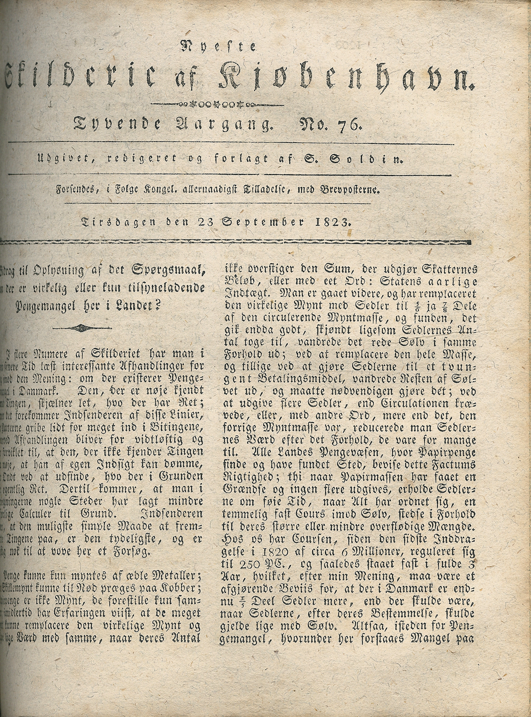 Nyeste Skilderie af Kiøbenhavn, 23. september 1823.